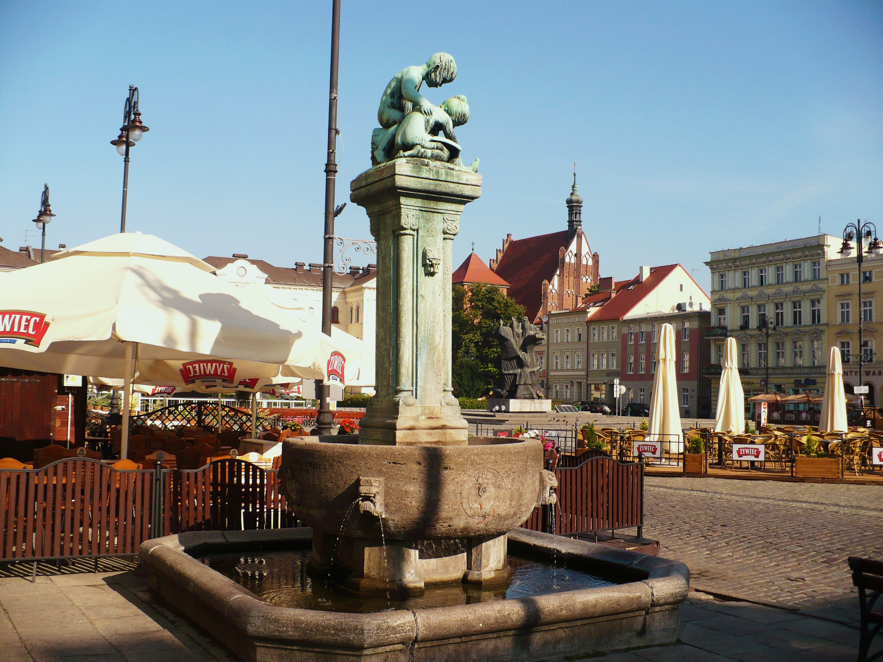 Fountain in Bydgoszcz